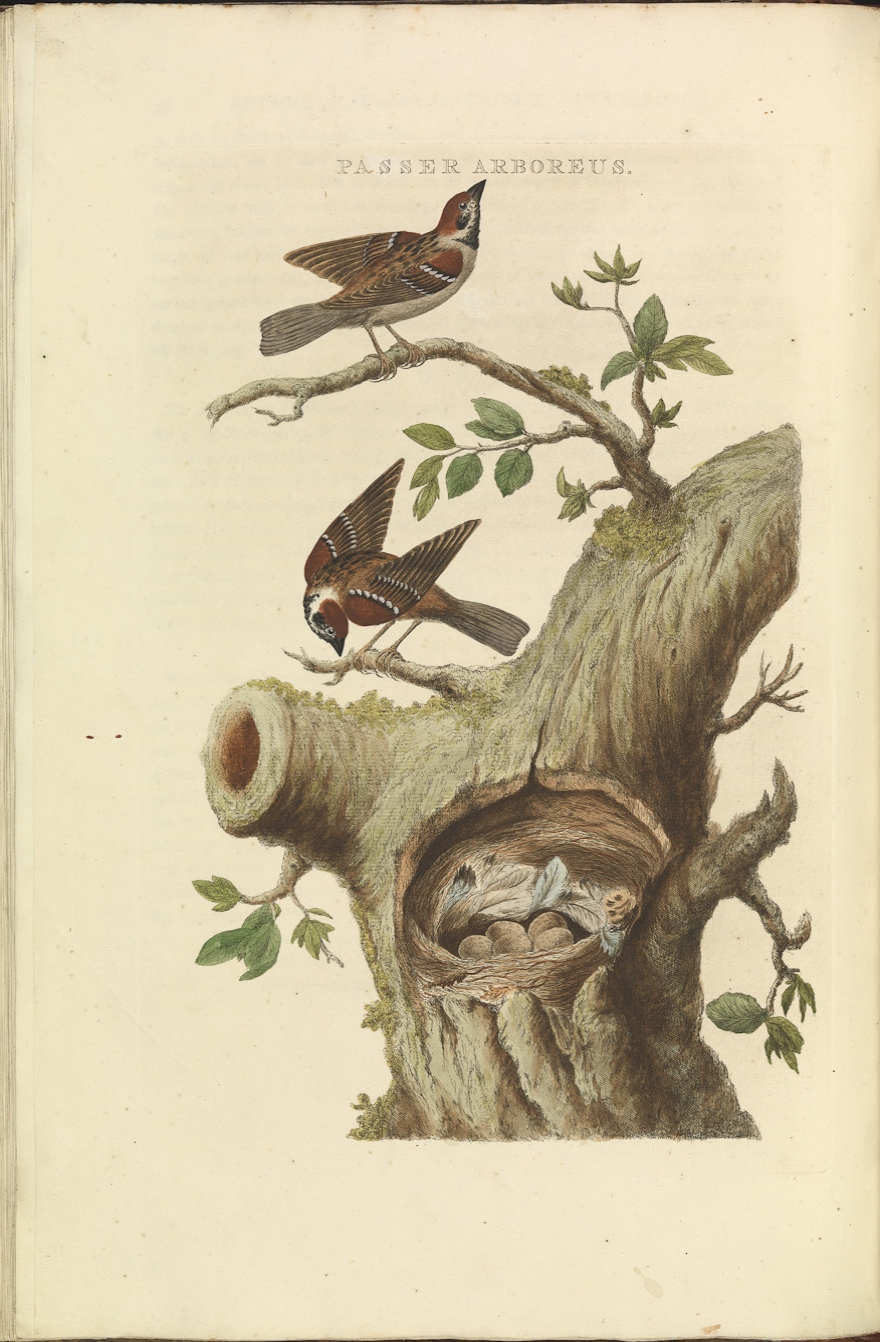 Plate 44 from the Nederlandsche vogelen by Nozeman and Sepp.